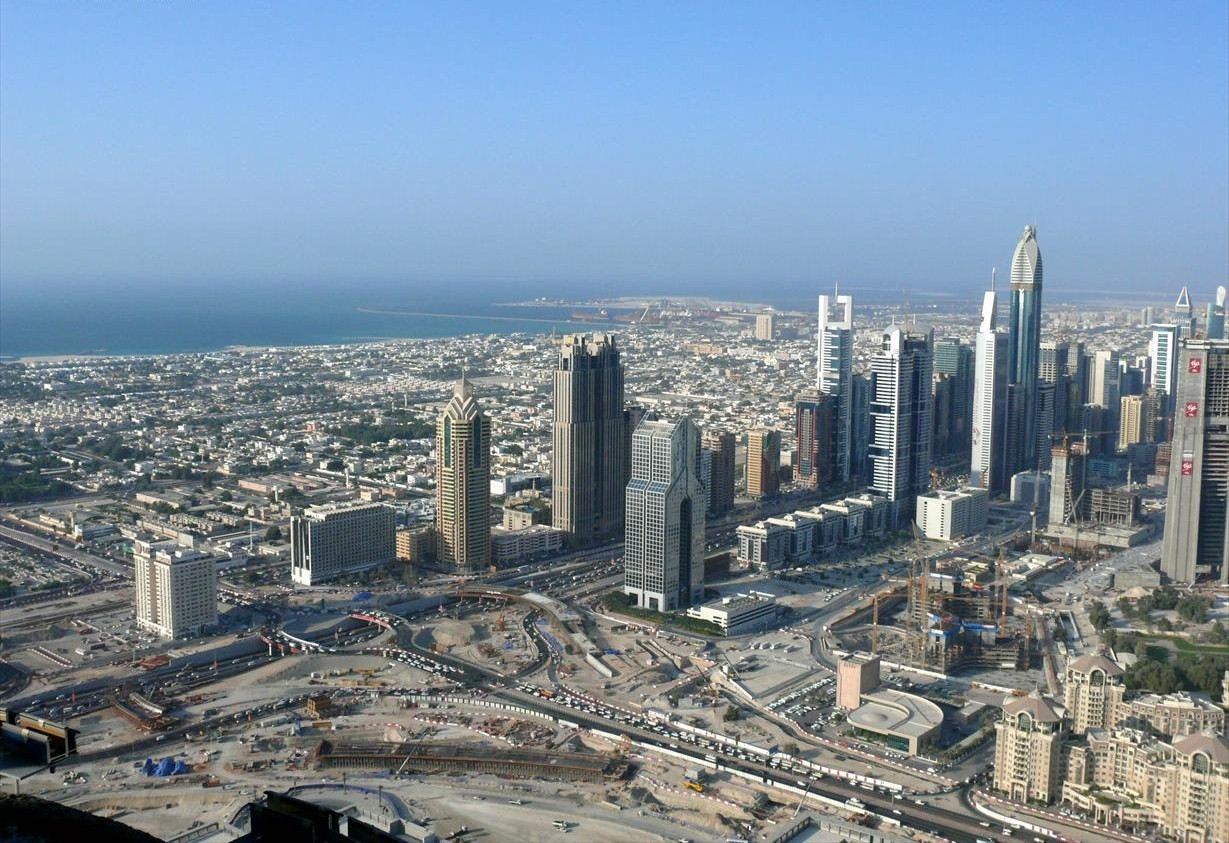 This is a photo showing a part of the skyline along Sheikh Zayed Road in Dubai, United Arab Emirates on 27 November 2007. This photo was taken from the 76th floor of the Burj Dubai. The road seen at the bottom of the image that intersects with Sheikh Zayed Road is Doha Road. The Persian Gulf can be seen in the distance.